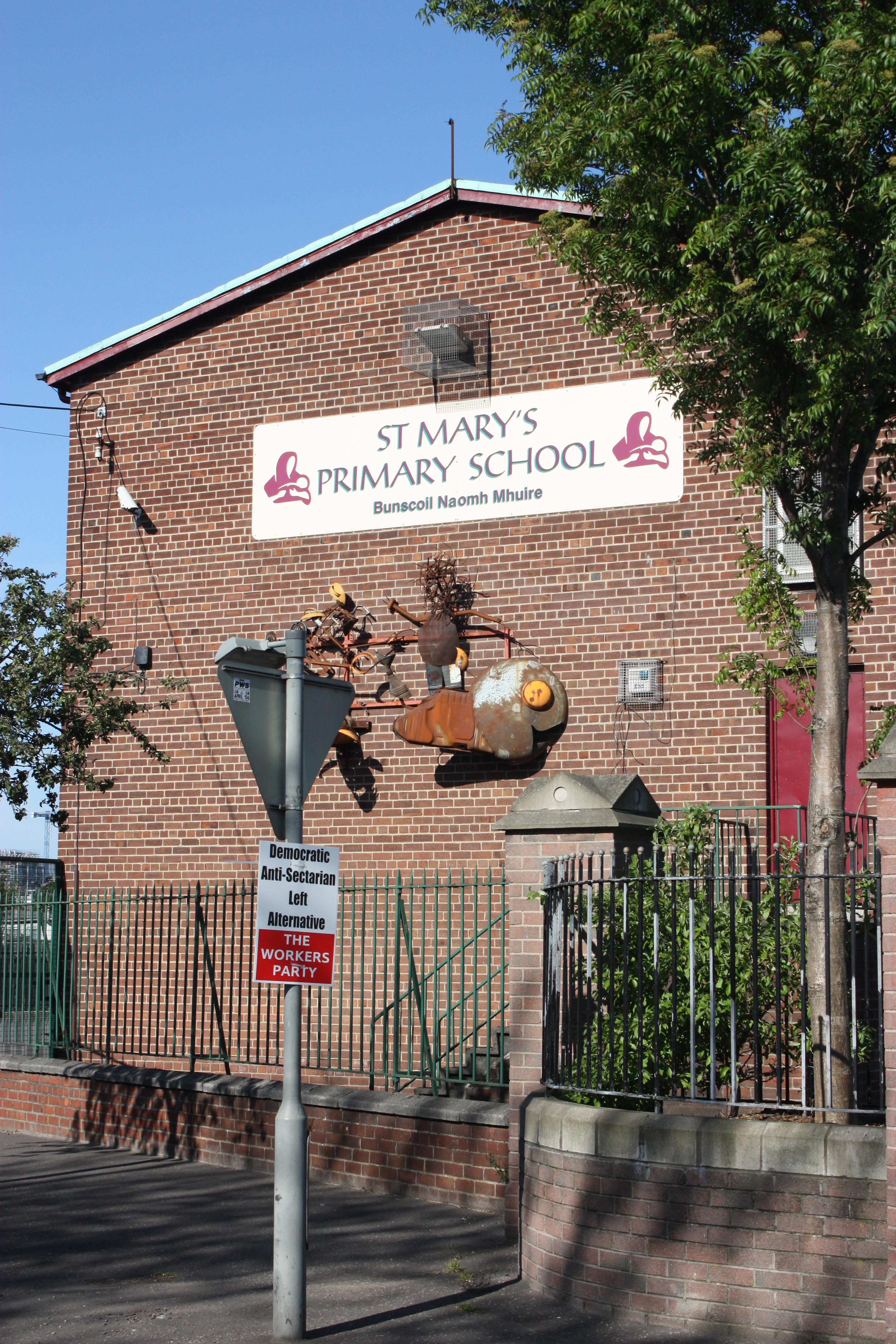 St Marys Primary School, Divis Street, Belfast, Northern Ireland, May 2011